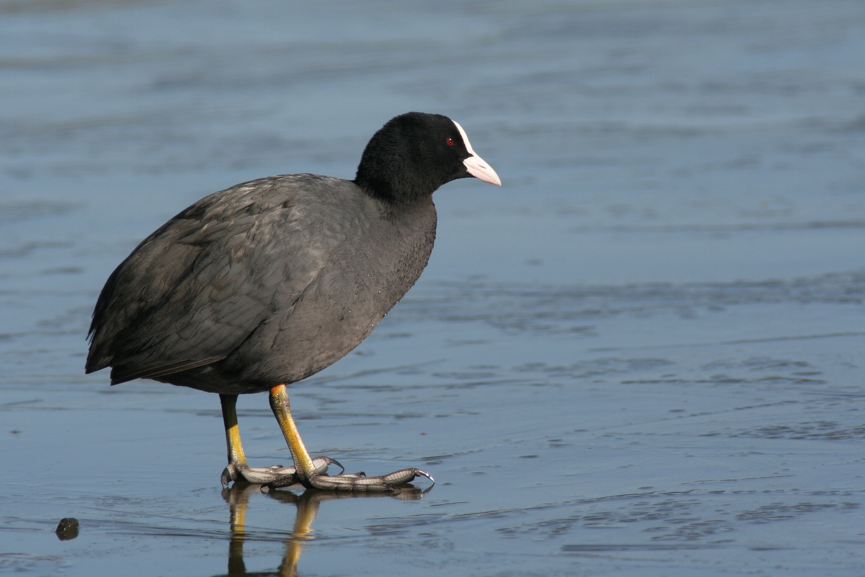 An Eurasian Coot (Fulica Atra) on ice near Compiègne (France).